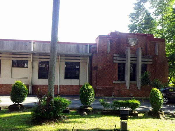 Rubber Research Institute of Malaya (R.R.I.M), Jalan Ampang